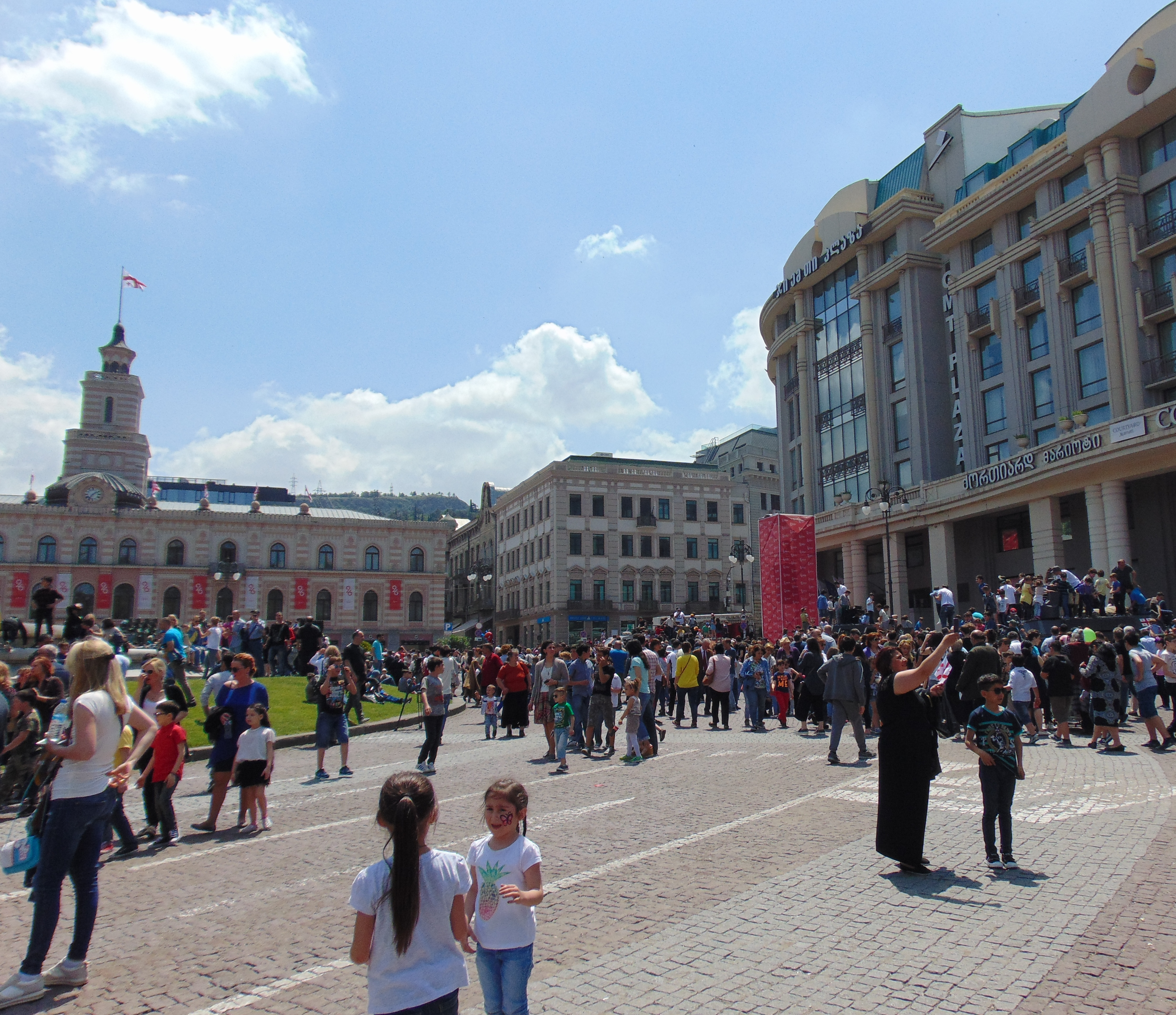 Freedom Square, Tbilisi. Georgia's Independence Day celebrations 26.05.2017